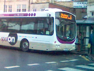 A photograph of a Volvo bus with Wrightbus Eclipse bodywork, operated by Lancashire United, taken by myself for use on Wikipedia bus-related articles.